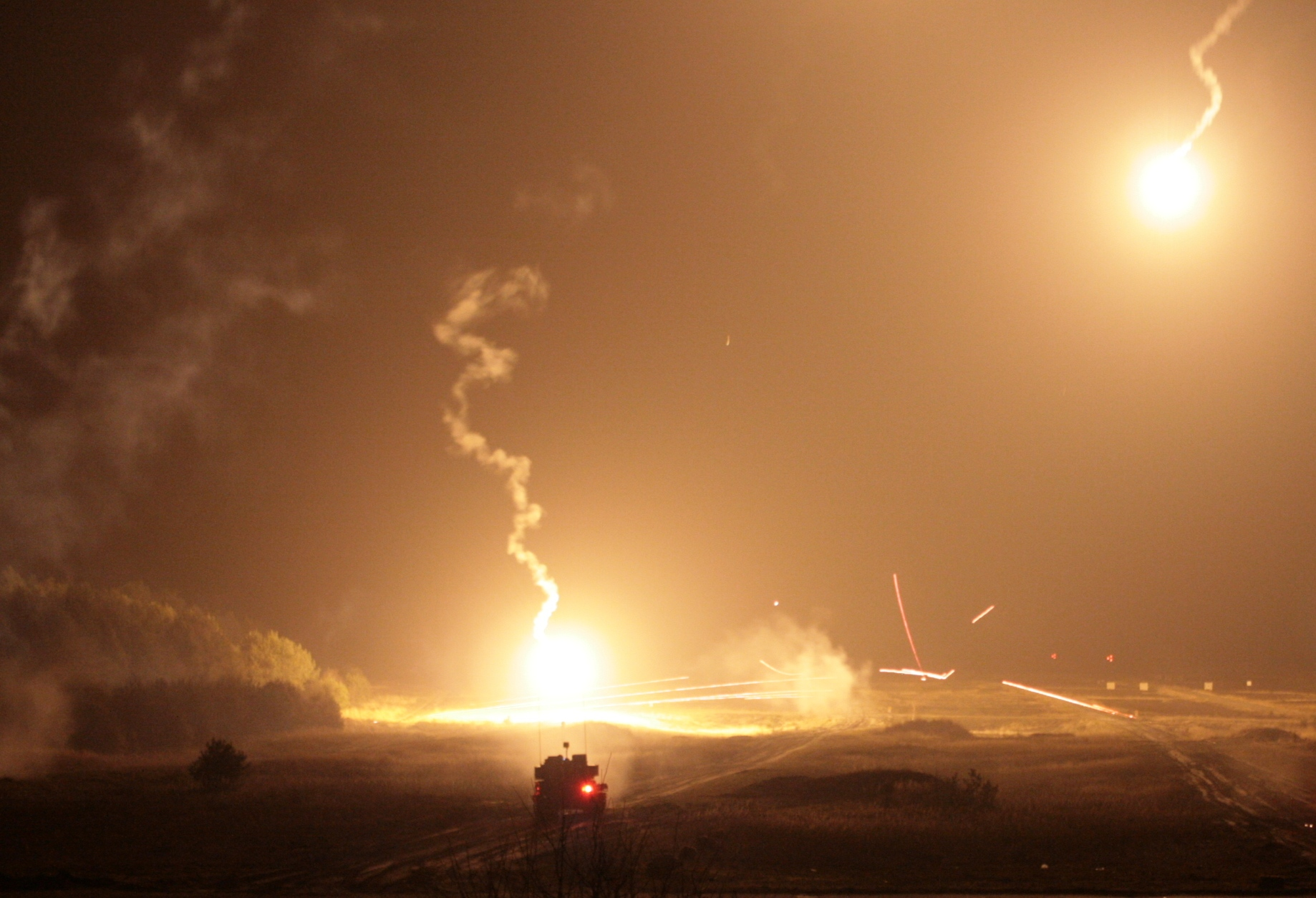 RDG Recce Tp night firing on Hohne Ranges